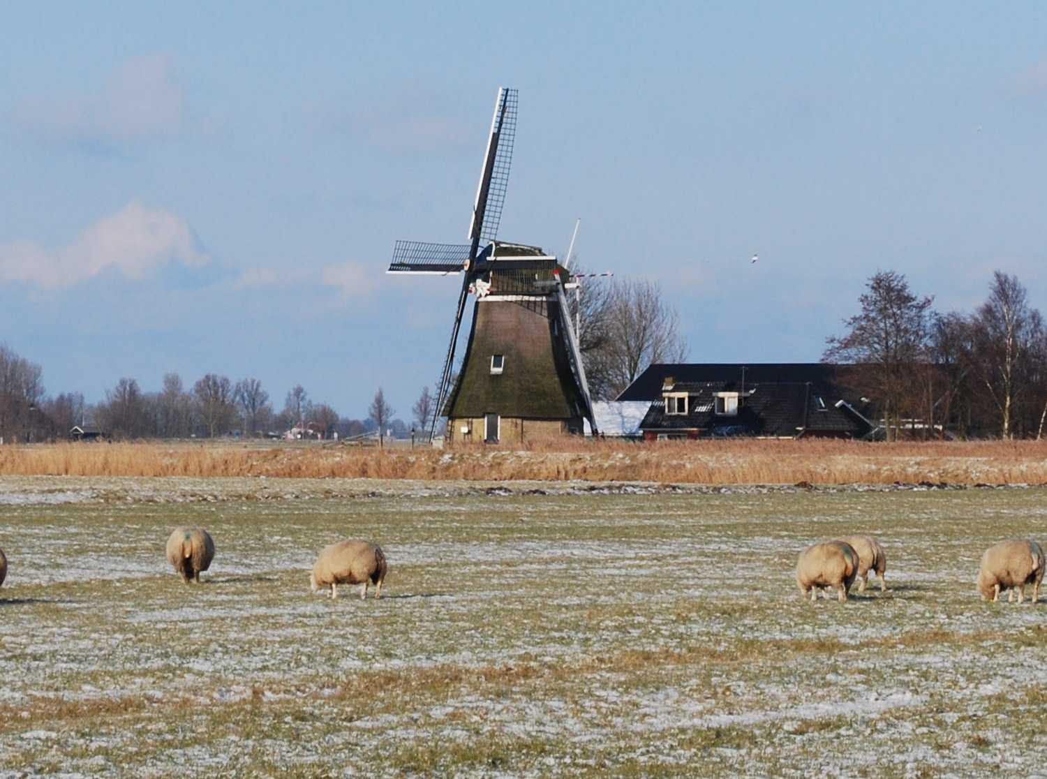 Tochmaland windmill near Kollum (Netherlands)